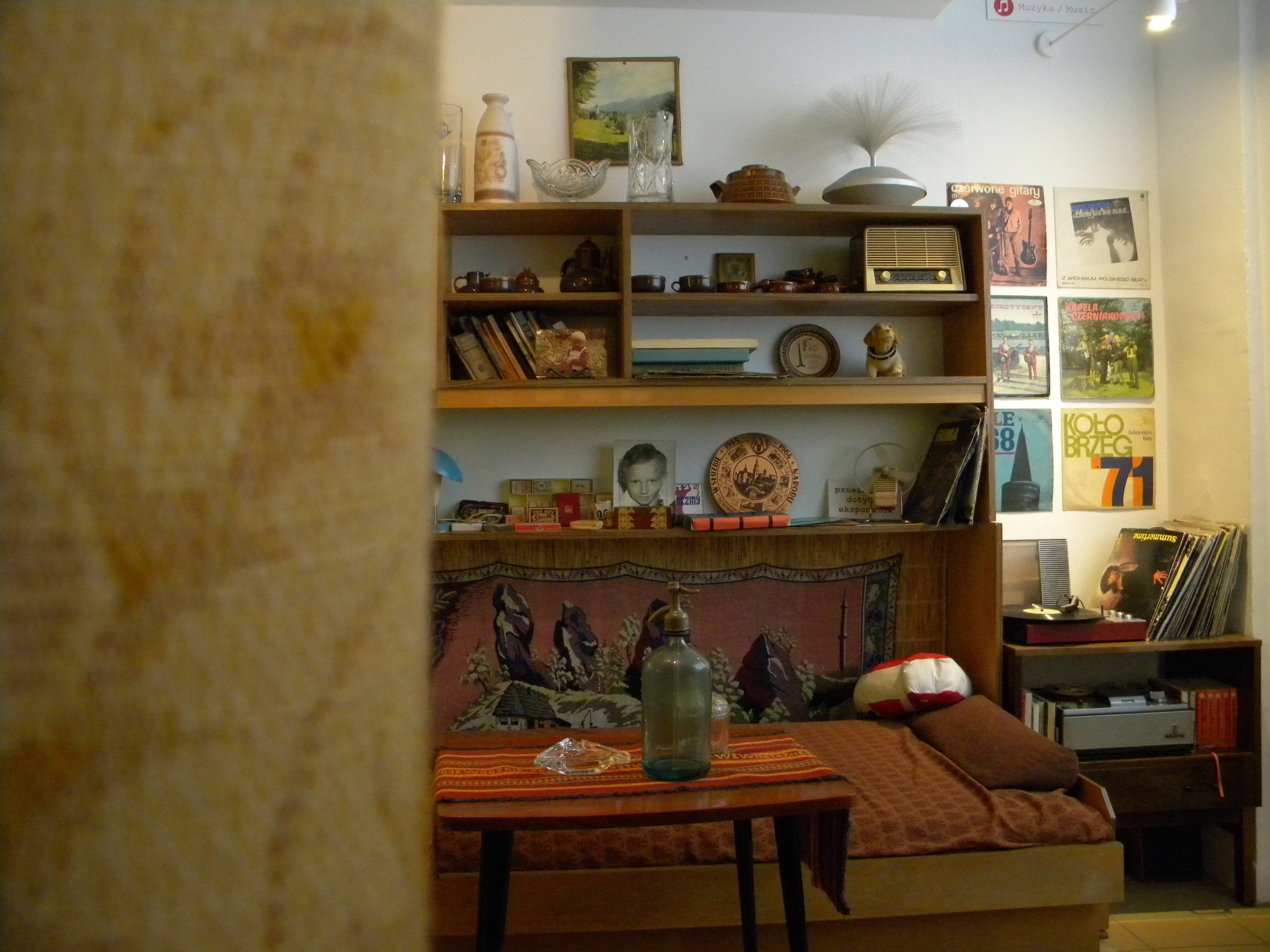 Czar PRL - Life under Communism Museum